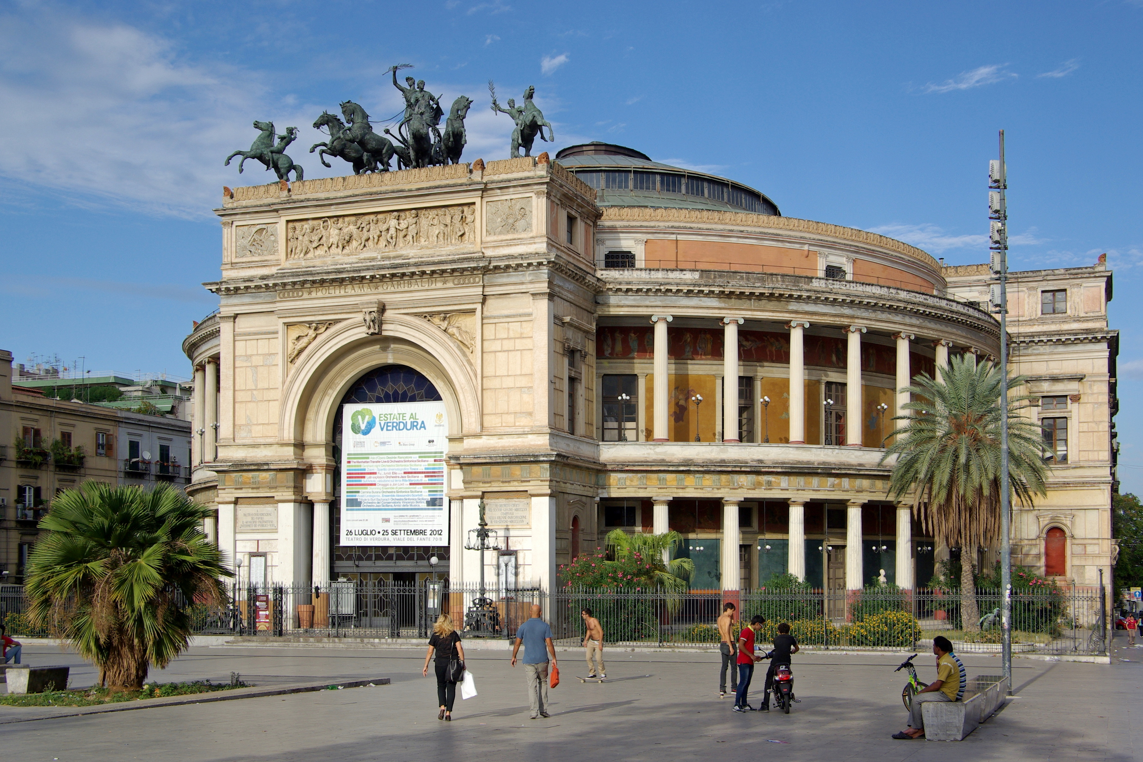 Italy, Sicily, Palermo, Teatro Politeama